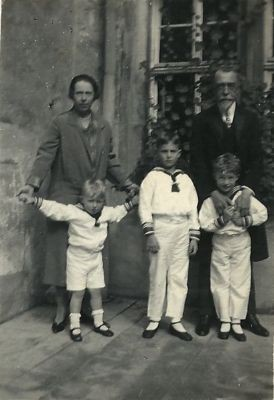 Ernst II, Prince of Hohenlohe-Langenburg with his wife Princess Alexandra of Saxe-Coburg-Gotha and their grandsons (Prince Hans Albrecht, Prince Wilhelm Alfred and Prince Peter). They were Princess Marie Melita’s sons. Princess Marie Melita was their first born daughter who married Duke Wilhelm Friedrich of Schleswig-Holstein at the tender age of 17.